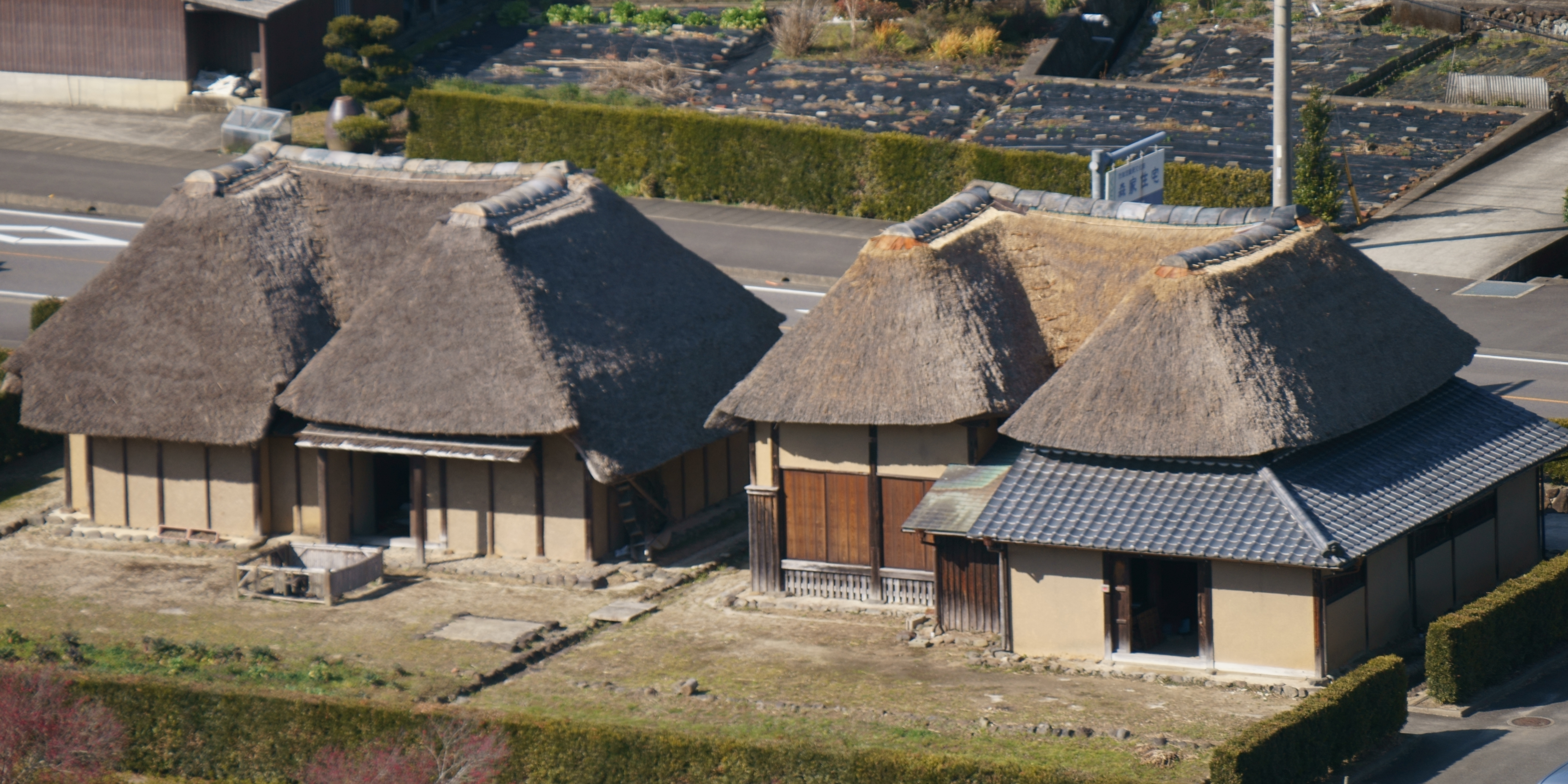 Kudozukuri(hearth-shaped) type traditional houses in Itaya, Nishitakumachi, Taku city, Saga prefecture. It taken from Homan Shirine at the hill.